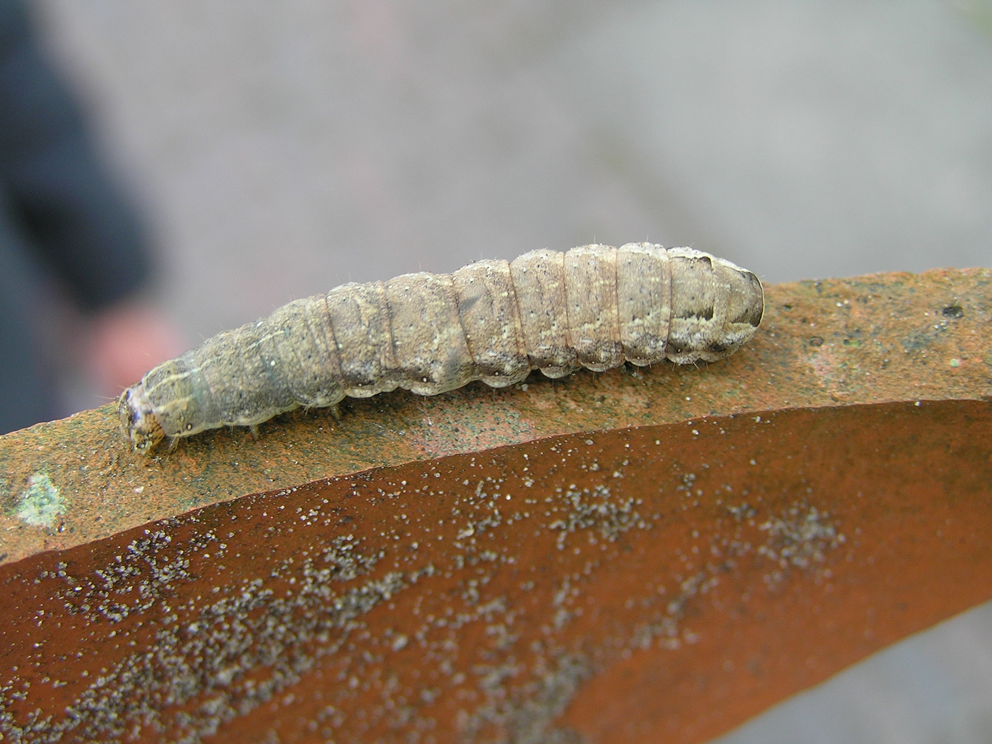 Caterpillar of Xestia triangulum, picture taken in Goes, the Netherlands.